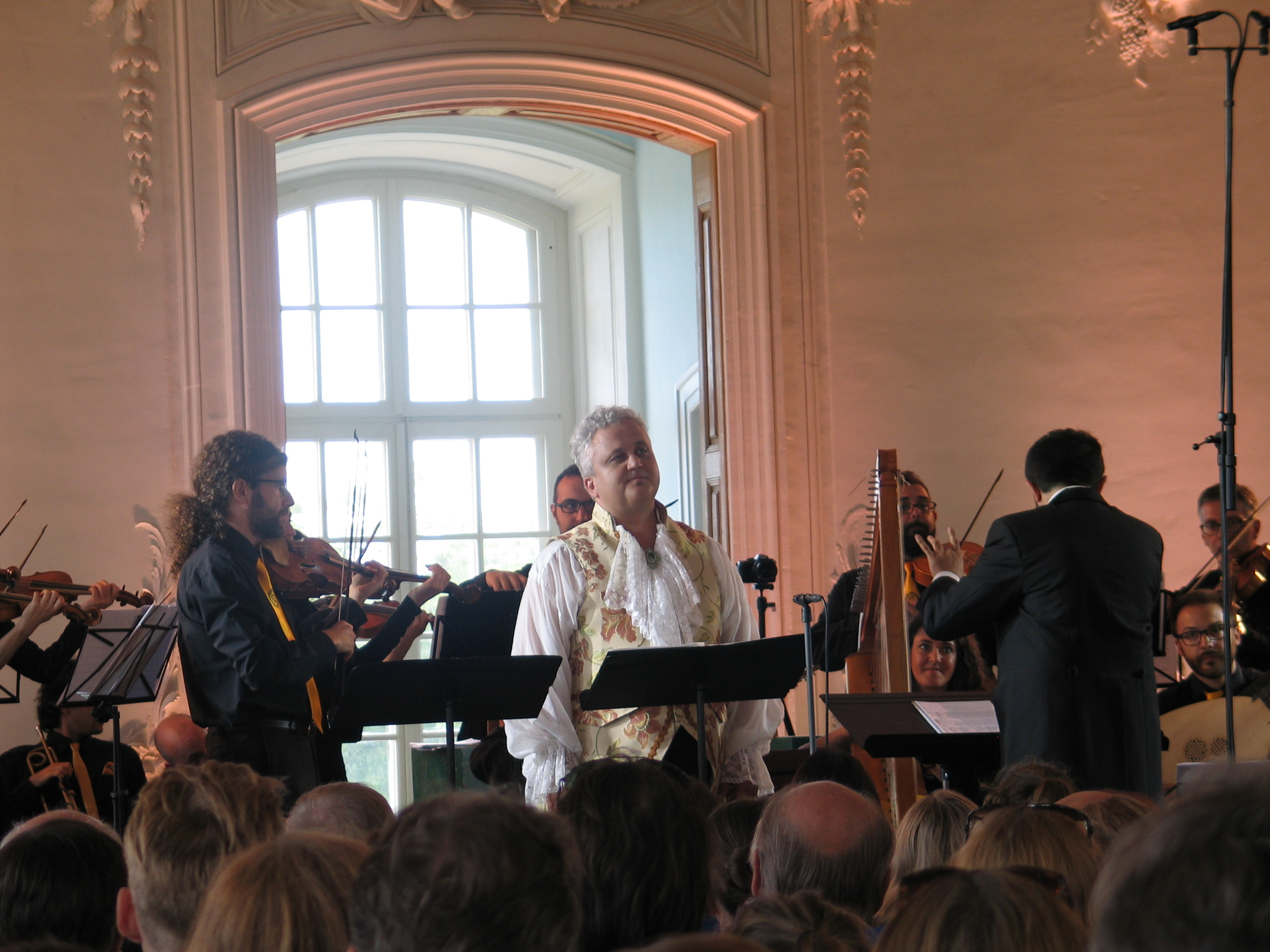 The concert of International Early Music Festival in the White Hall of Rundāle Palace: Sergejs Jēgers sings with the Baroque orchestra Coin Du Roi (Italy)